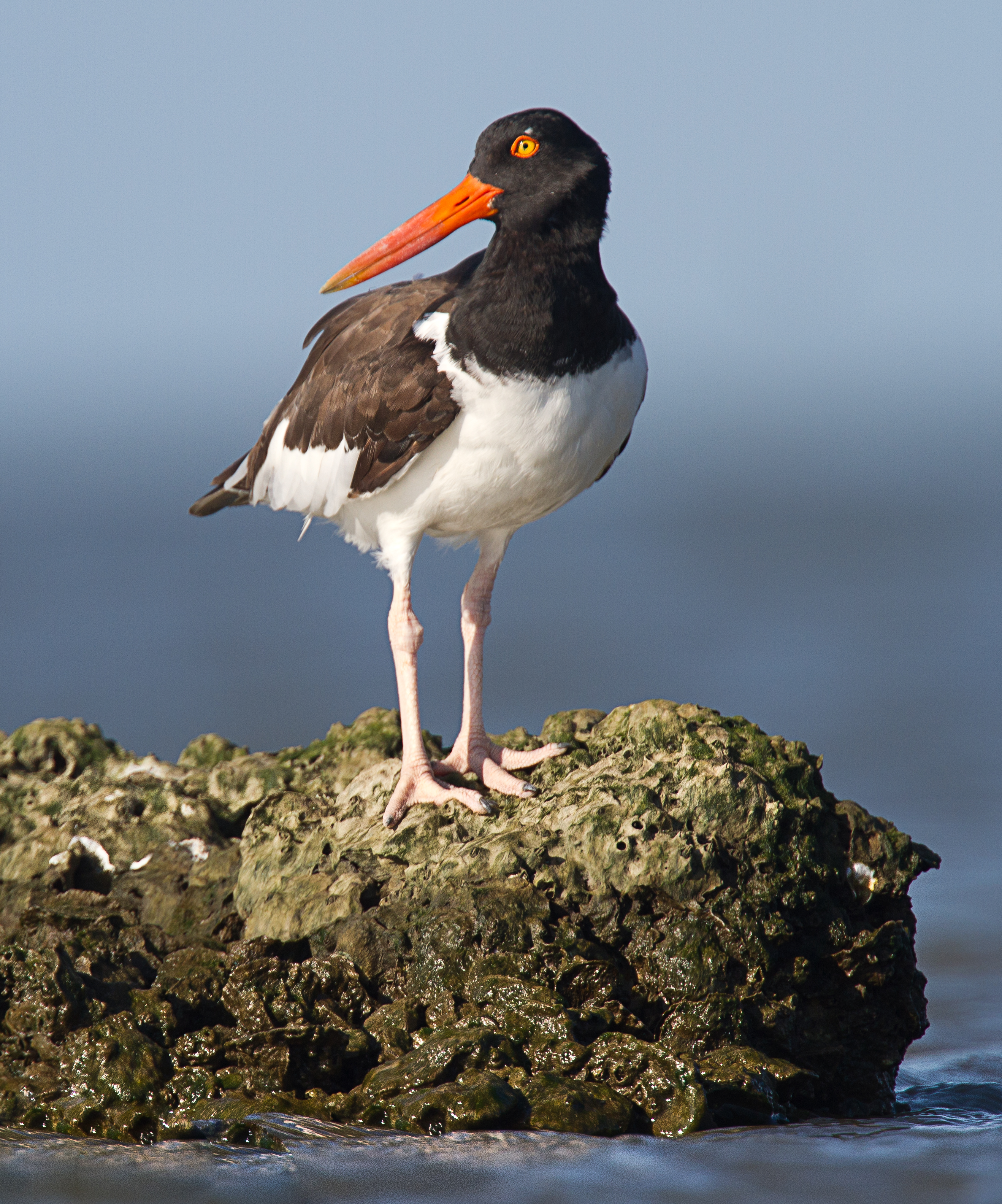 American Oystercatcher, Texas City, Texas